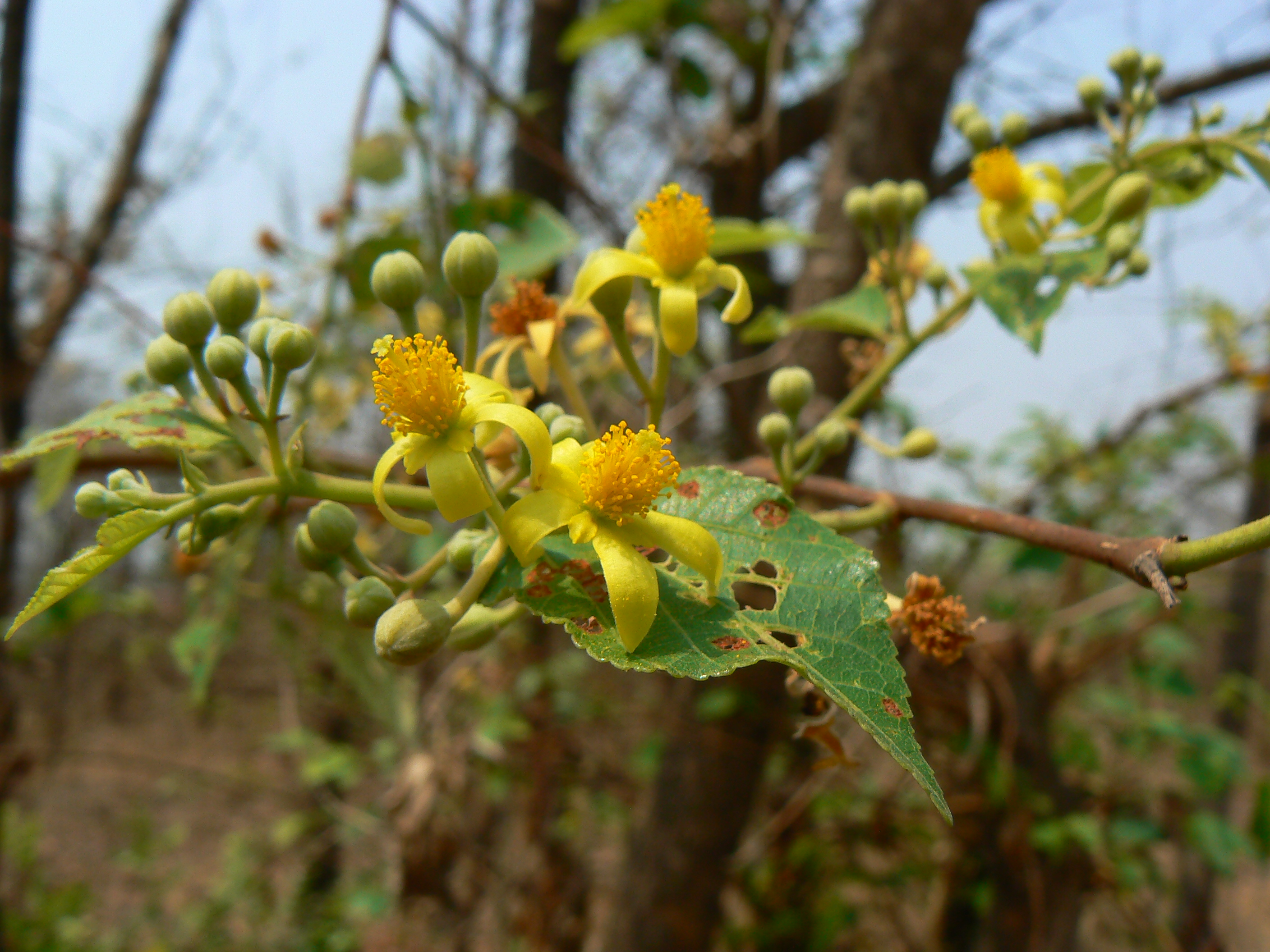 phalsa • Filipino: bariuan-gulod • Hindi: फालसा phalsa • Khmer: pophlië • Lao: nhap (Sino-Tibetan) • Marathi: पळशी palshi, फालसा phalsa • Sanskrit: परूषक paroushak • Tamil: பலிசமரம் palicamaram • Thai: lai khon, po tao hai, yap khee thao • Urdu: फालसा falsa • Vietnamese: c[of]-ke-[as], cò-ke-á Origin: India, Nepal, Cambodia, Laos and Thailand The ripe fruits are sweet with a pleasant blend of acid and having a cooling effect on body. These are tonic and aphrodisiac. The fruits allay thirst and burning sensation, remove and cure inflammations. These are said to be good for heart and blood disorders, fevers and diarrhoea. The fruit is also good for the troubles of throat. The unripe fruits remove vata, kapha and biliousness. The bark of phalsa plant cures biliousness and vata. It also cures urinary troubles. An infusion of the bark is used as a demulcent. The root bark is used by Santhal tribals use the root bark for rheumatism. The leaves are used as an application to pustular eruptions. Buds of phalsa are also prescribed by some physicians. Courtesy: - Florabase - the Western Australia Flora - eFlora - World Agro Forestry - A Dictionary, Marathi and English - Tamil Lexicon Note: Identification or description may not be accurate; it is subject to your review.